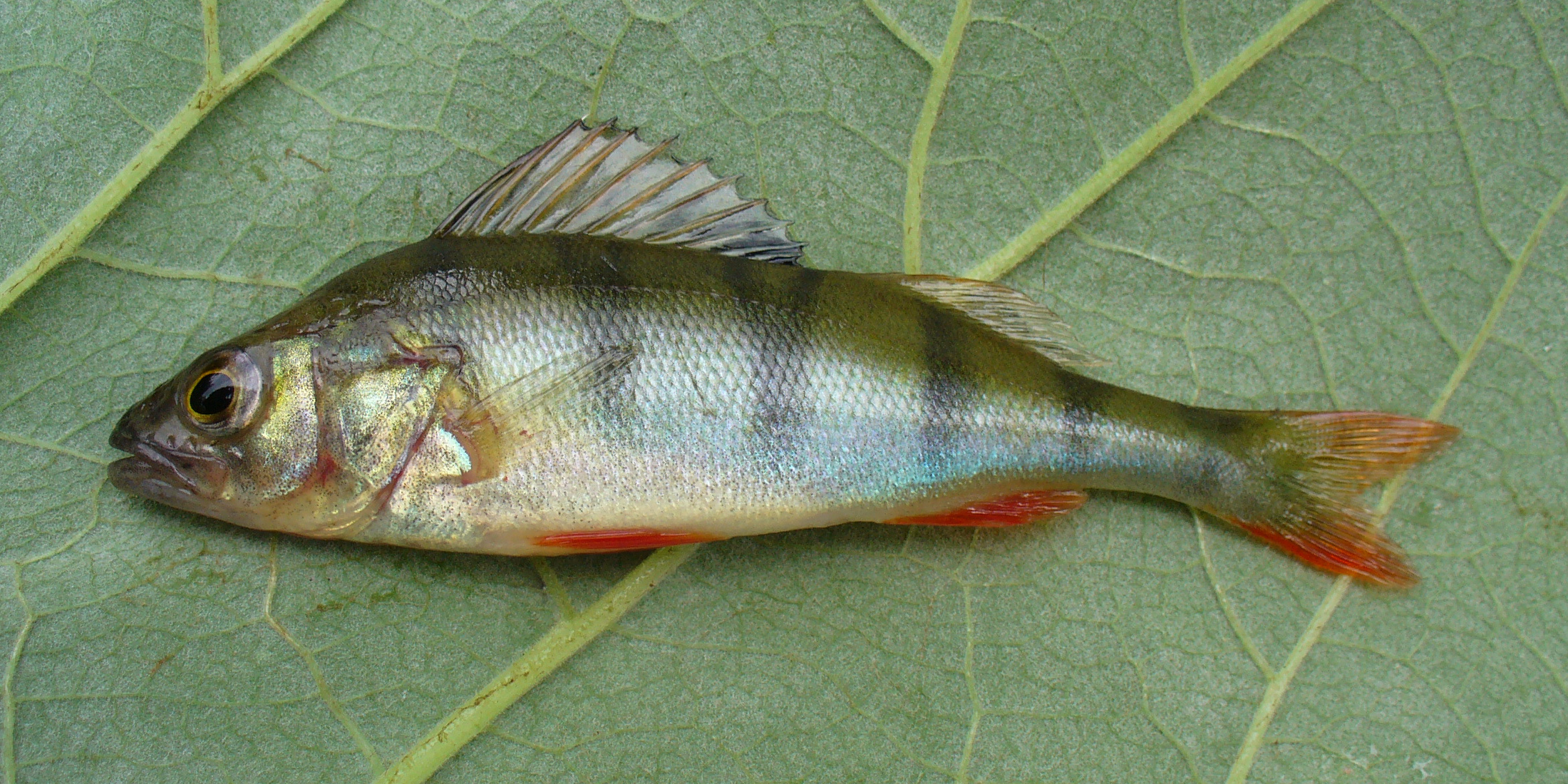 Perch